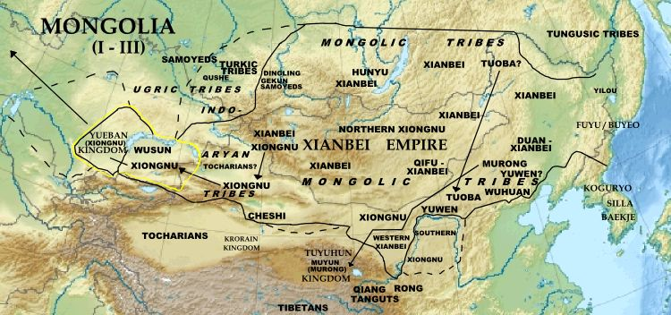 based on File:Asia laea relief location map.jpg. Data source: partially based on "Mongolian National Atlas" (2009)